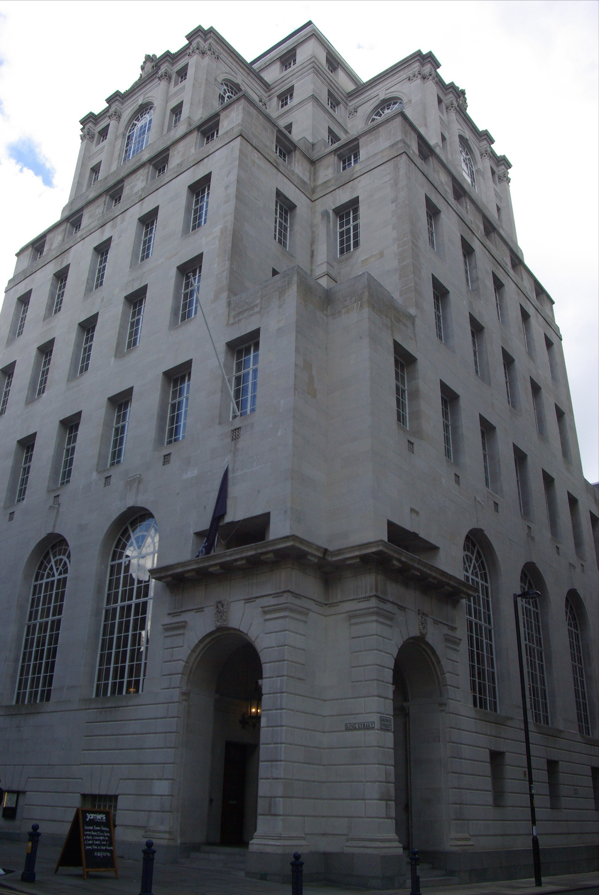 100 King Street, Manchester. Now Jamie's Italian. Previously Midland Bank. Links Wikipedia Home Page